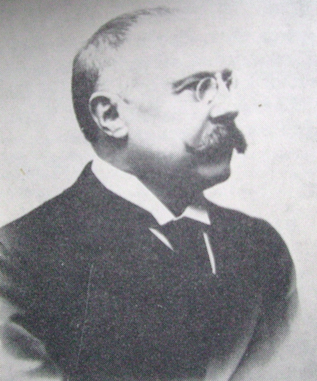 Picture of Alfred Lagerheim, Swedish politician